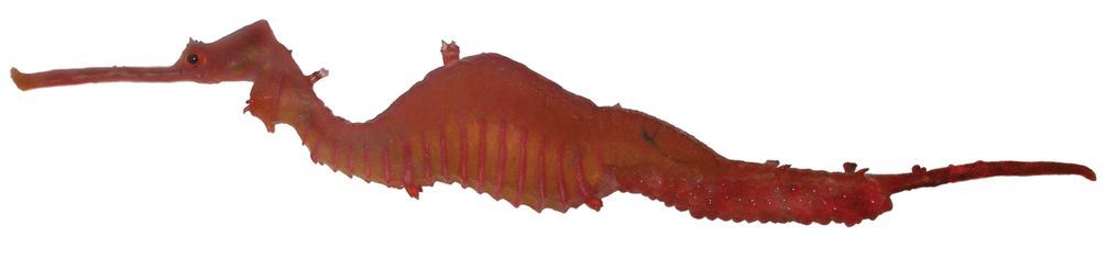 Phyllopteryx dewysea "on-deck shortly after being trawled"